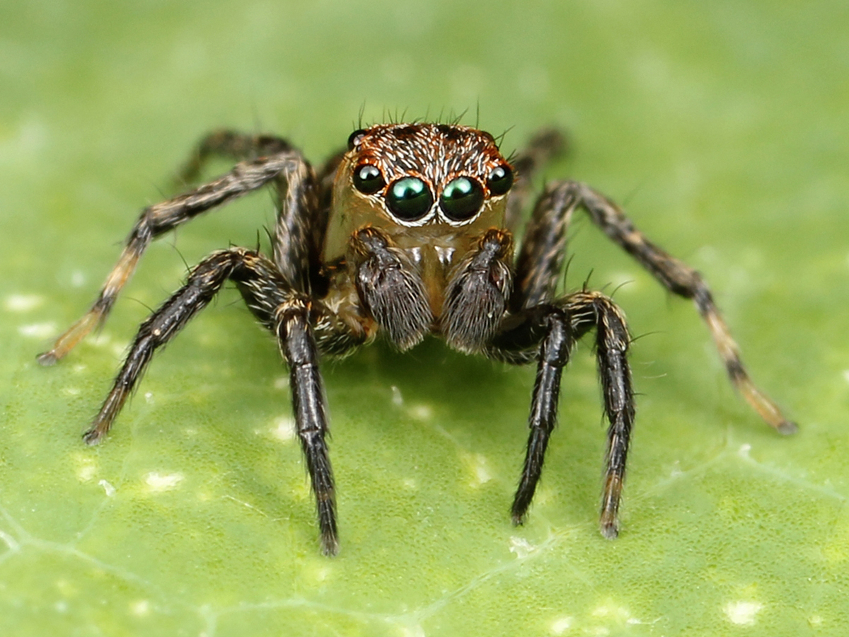 Adult male Naphrys pulex jumping spider collected in Nashville, Tennessee